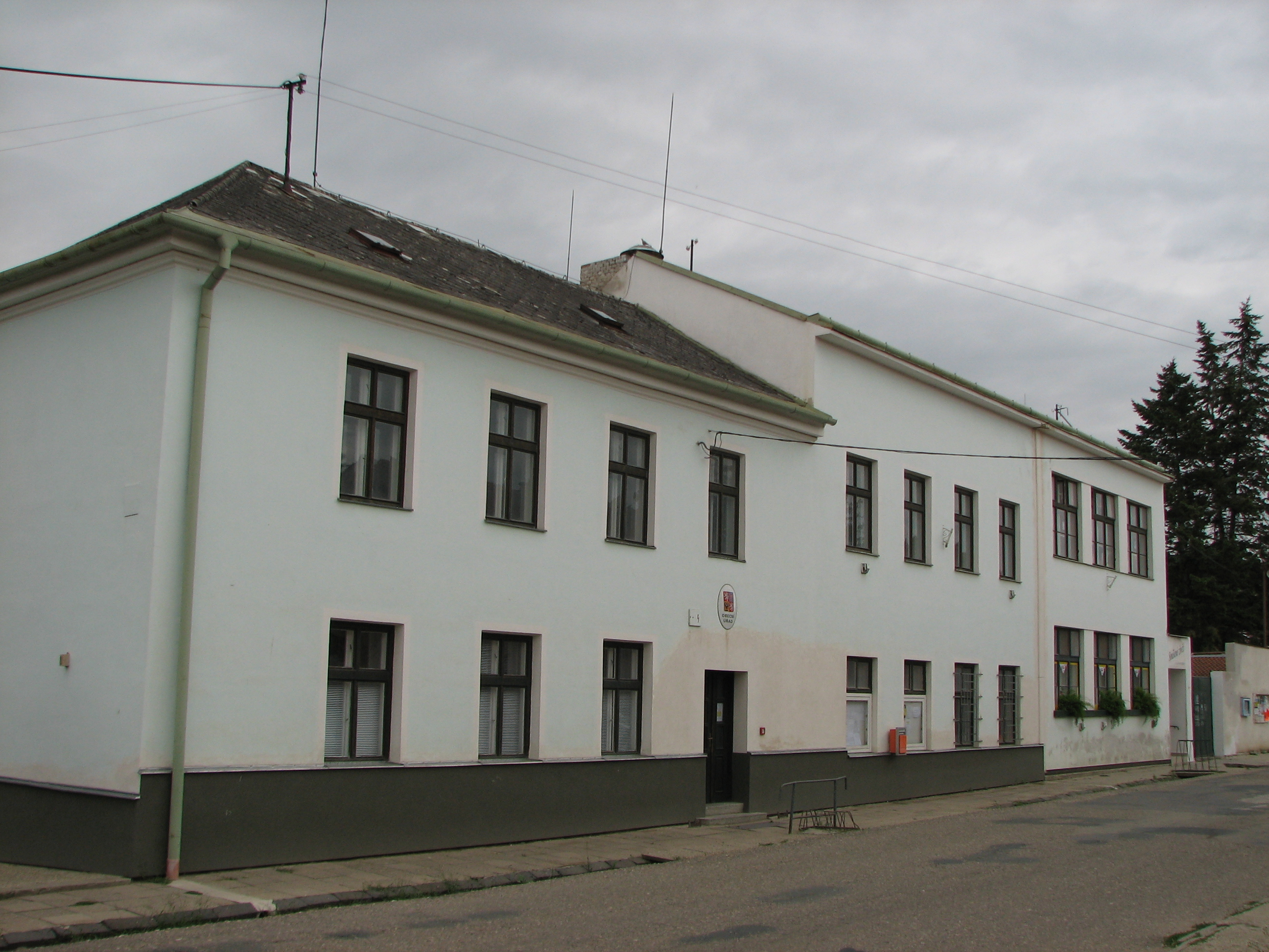 Sobůlky - municipal office